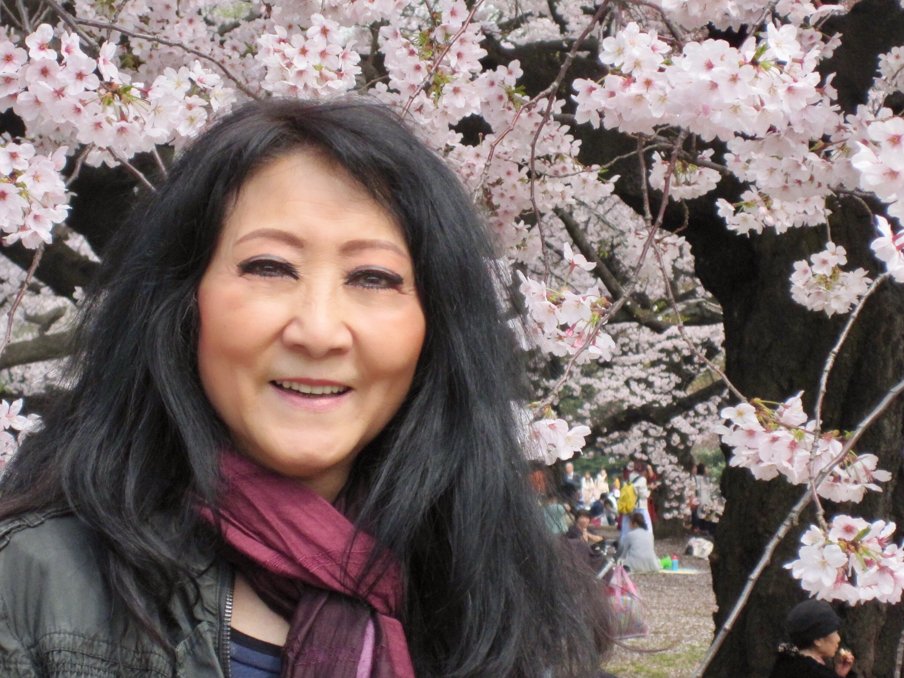 Photo of the japanese novel author Kyoko Shinkai